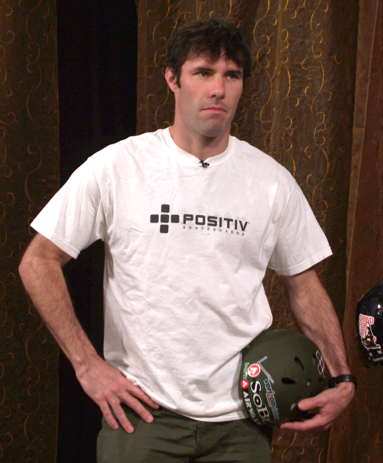 Skateboarder Andy MacDonald, 2008